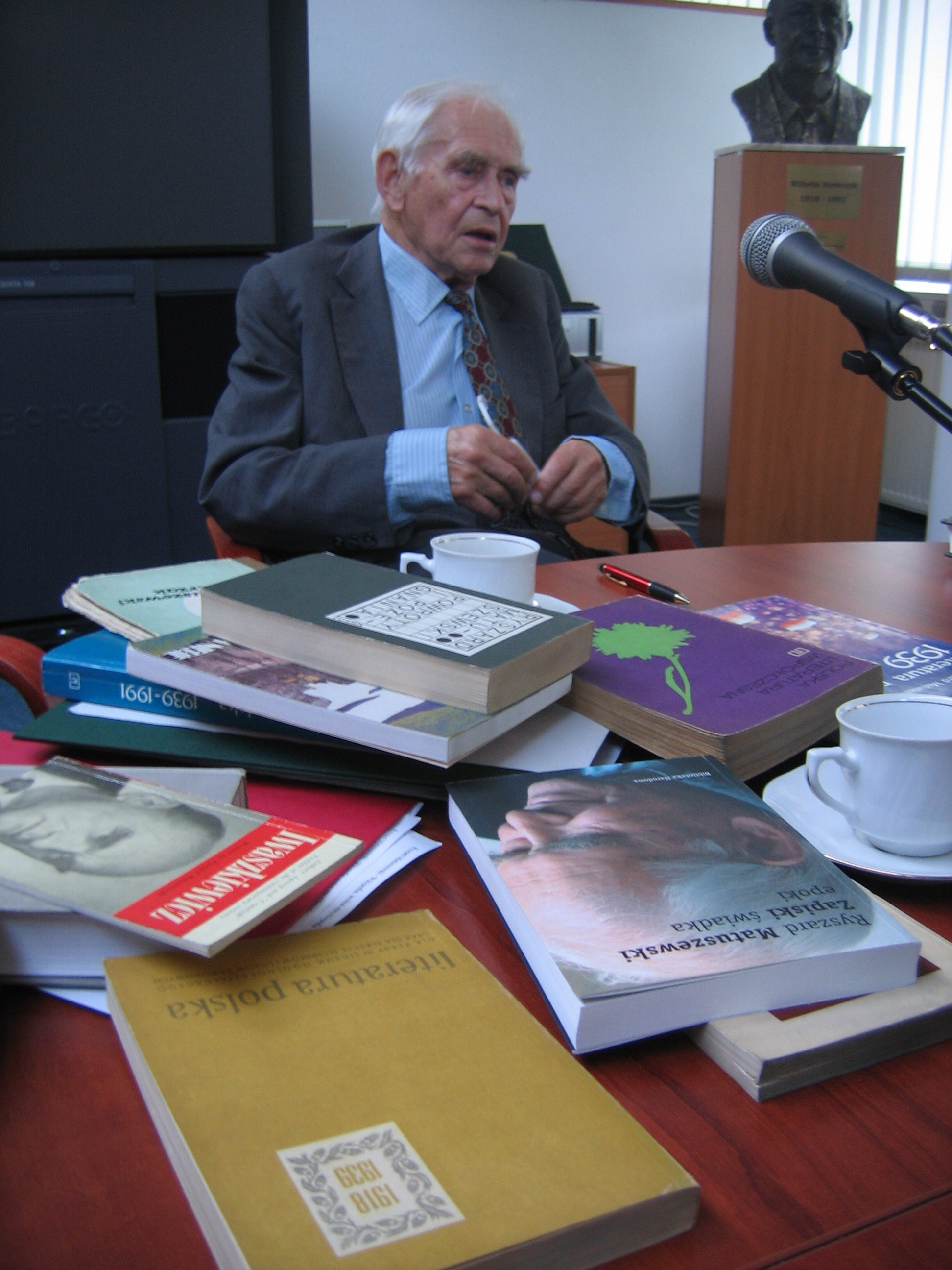 Ryszard Matuszewski (b. August 18, 1914 in Warsaw, Poland, d. April 29, 2010 in Warsaw, Poland) - Polish literary critic, writer, essayist and publicist. He lived in Warsaw, Poland